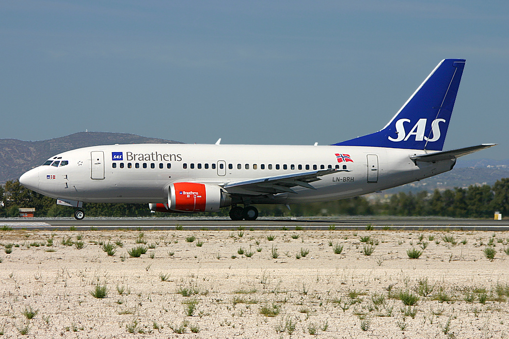 SAS Braathens Boeing 737-505 LN-BRH at Faro Airport